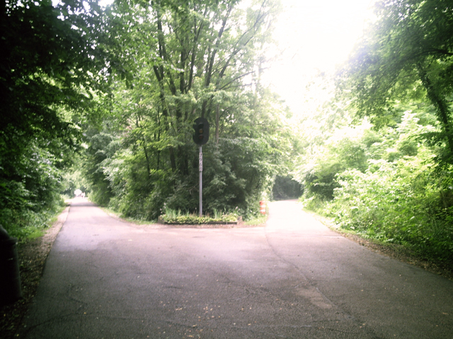 A section of Constitution Trail featuring an old railway traffic signal